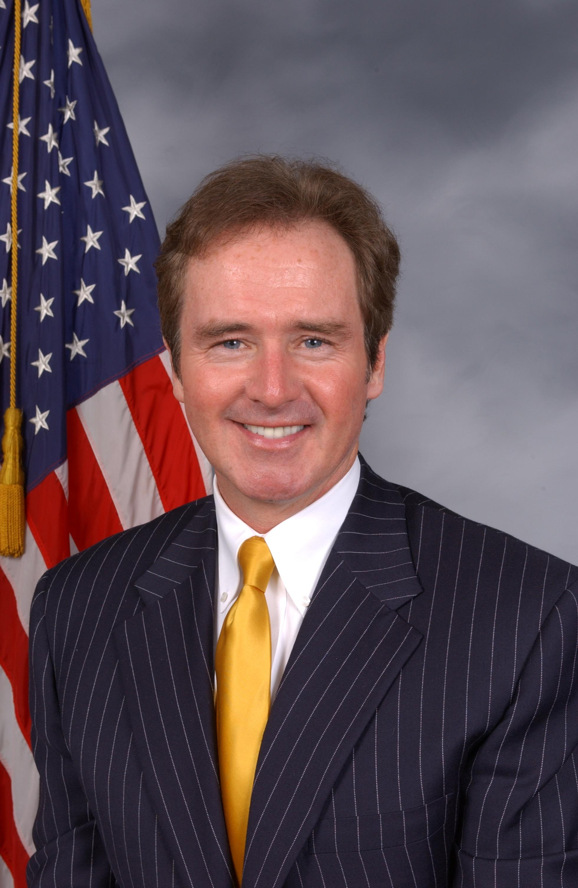 Brian Higgins, member of the United States House of Representatives.